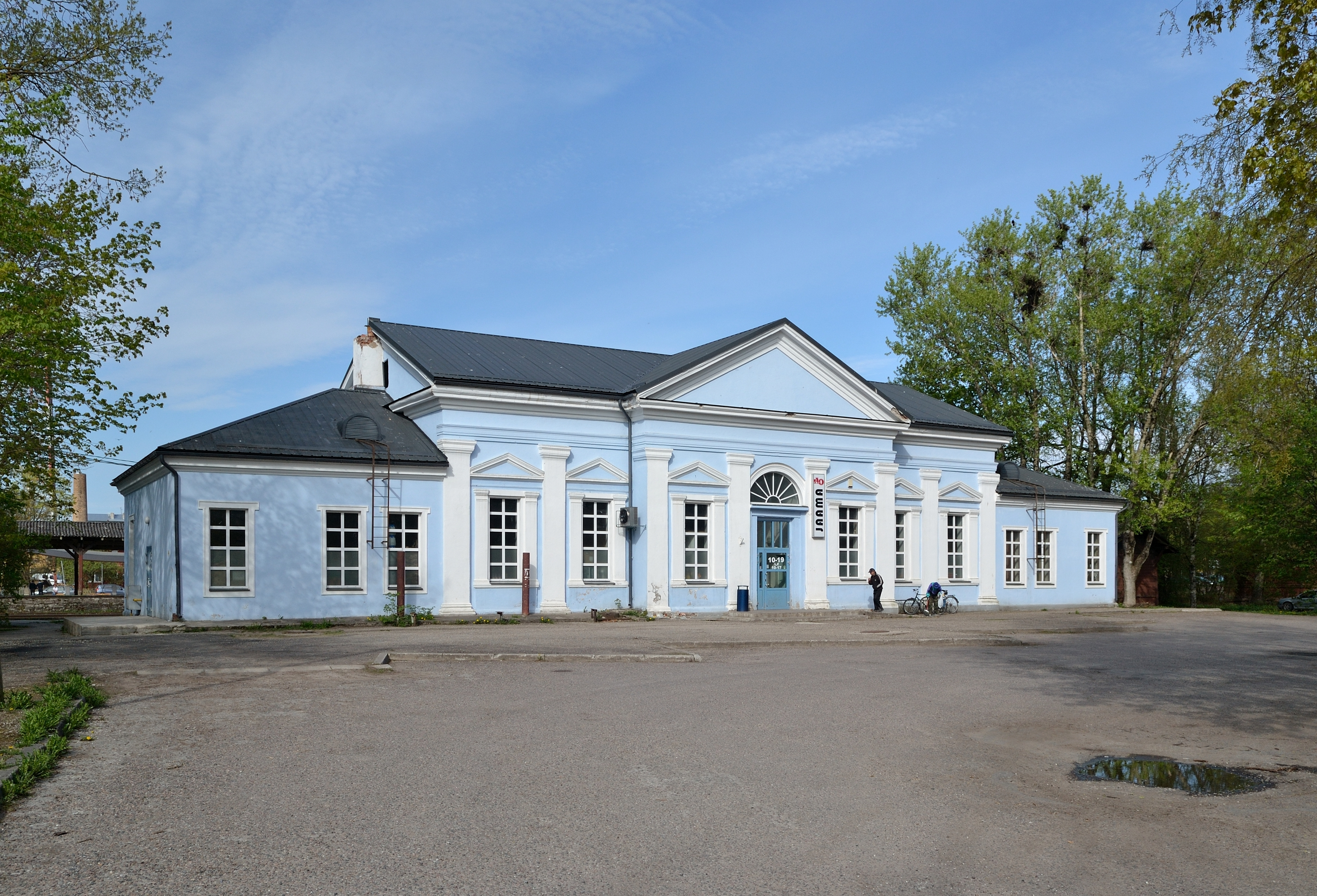 Jõgeva station former main building